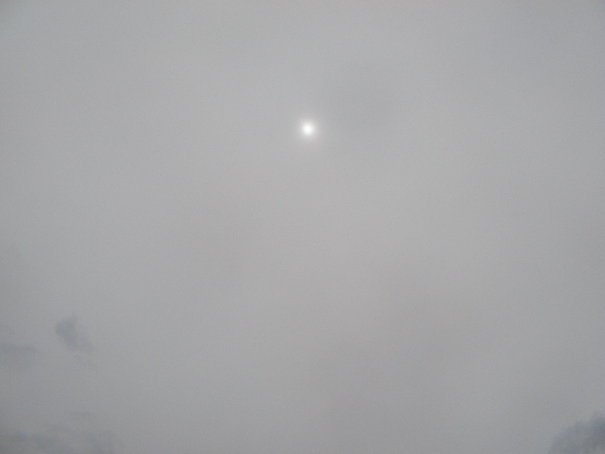 Weather/clouds/Altostratus translucidus, grey cloud, sun is seen through cloud.